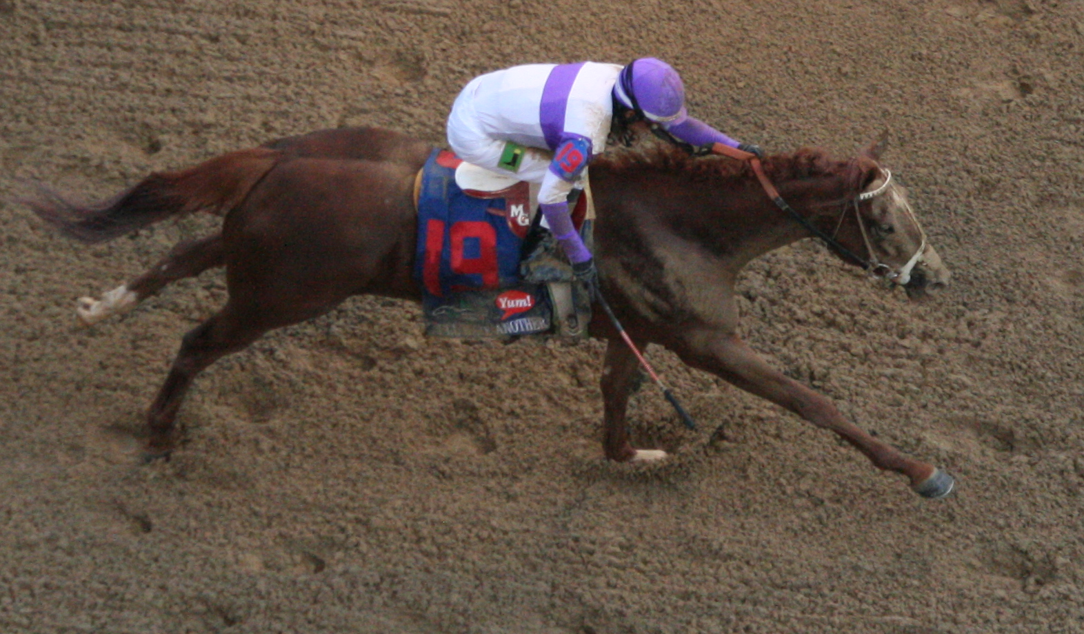 On the 138th running of The Kentucky Derby,I'll Have Another (Horse #19), did just that. He rounded the final turn and into the straight stretch to come from behind and cross the finish line, to win by a full length.